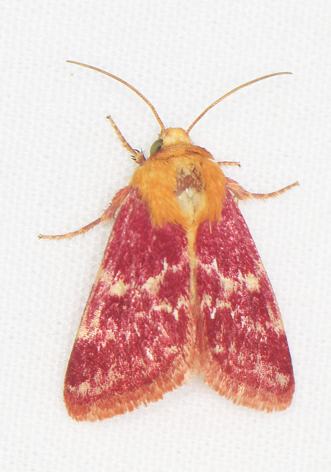 Painted Schinia - Schinia volupia, McKinney Roughs Nature Park, Cedar Creek, Texas